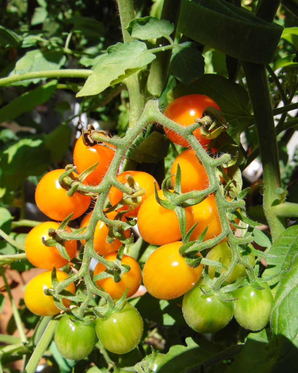 Cherry tomatoesPlease respect author's moral rights by not changing this description or the image title.